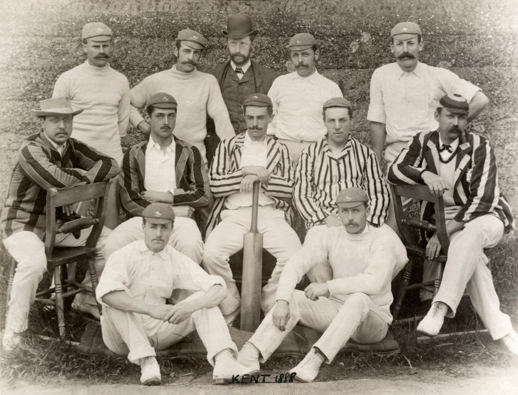 The Kent County Cricket team, circa 1888. Left to right, back row: Walter Wright, John Pentecost, Crow (scorer), George Hearne and Frederick Martin; middle row: Rev Richard Thornton, John Tonge, Leslie Wilson (captain), Albert Thornton and Charles Fox; front row: Herbert Hearne and Frank Hearne.